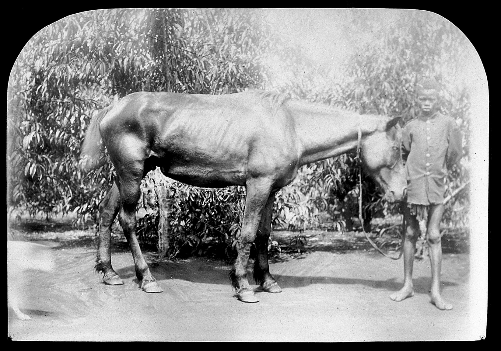 Lantern slides. A32, horse; Nagana Archives & Manuscripts Keywords: naval & military; David Bruce